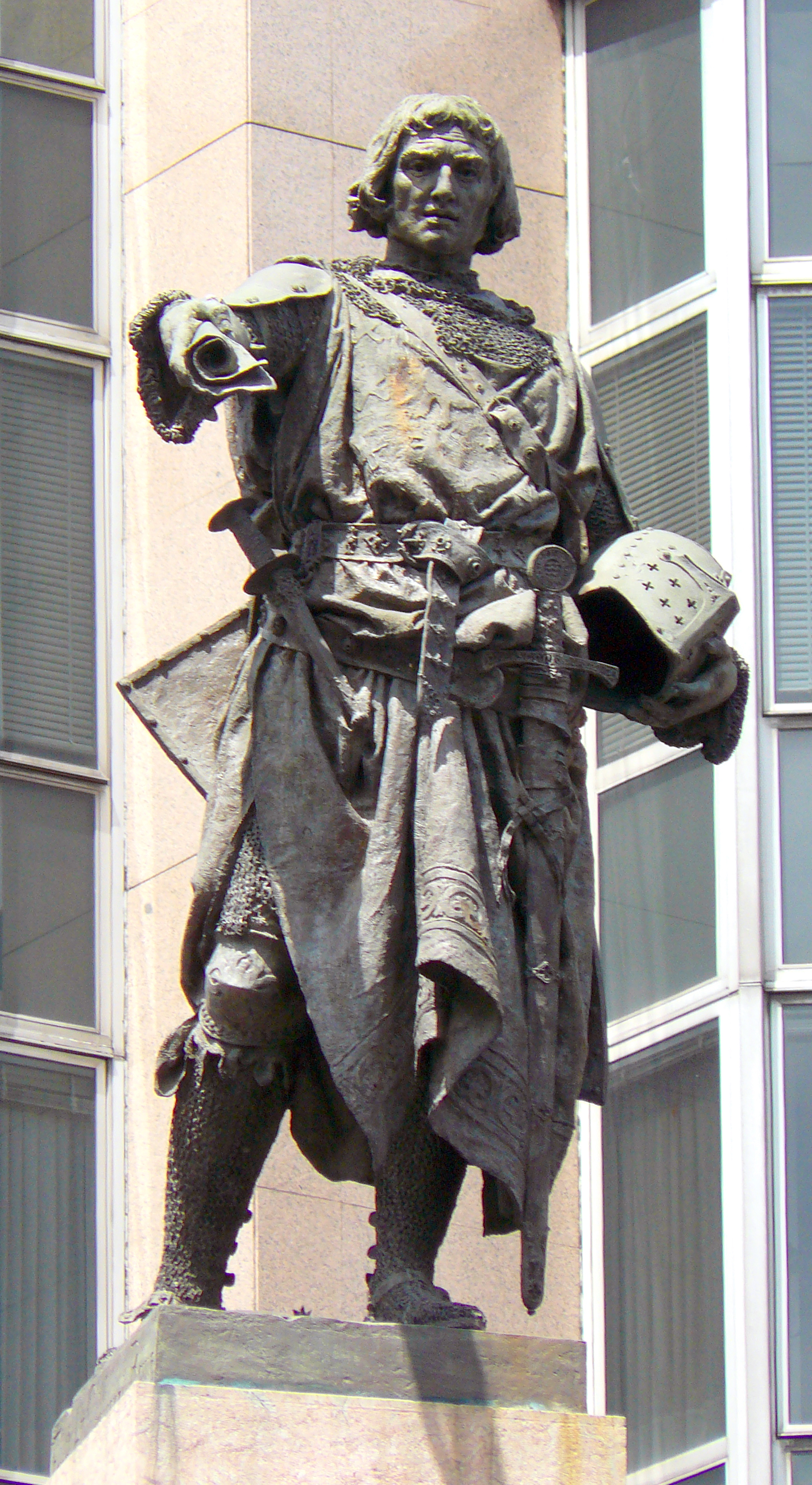 Statue of Don Diego López de Haro V, founder of Bilbao, Spain.